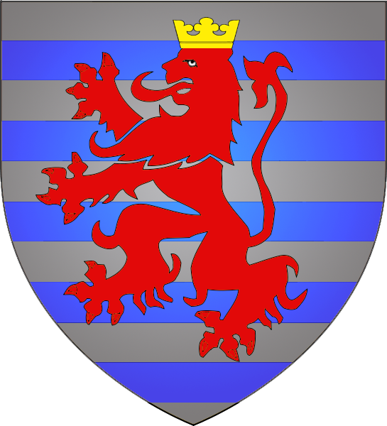 Coat of arms of Luxembourg City